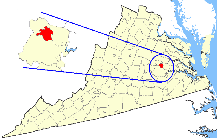 Maps of counties in Virginia